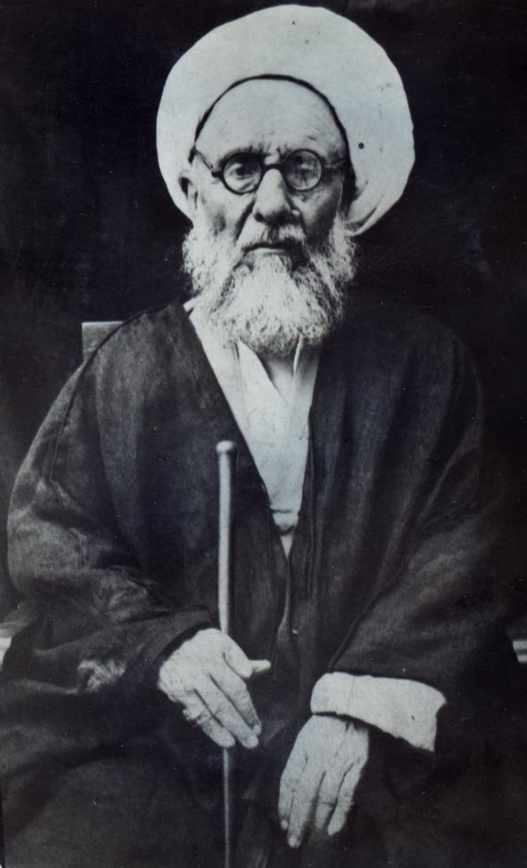 Muhammad Kadhim Shirazi (16917)